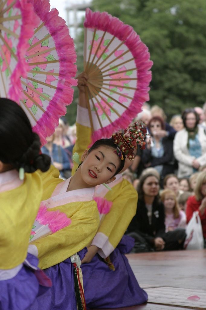 A performance of Korean traditional dance, Buchaechum at Edinburgh festival.